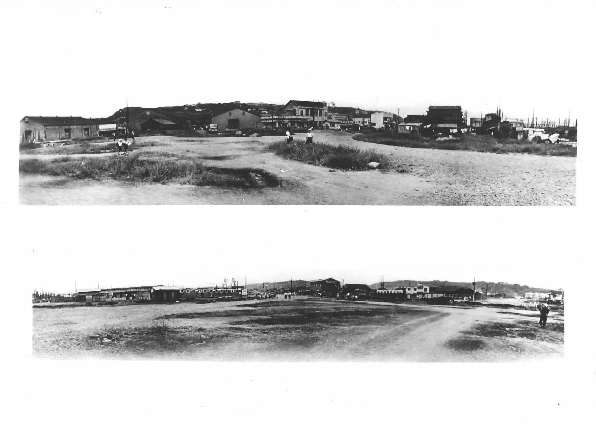 View of the East exit of Yokohama station around 1952.